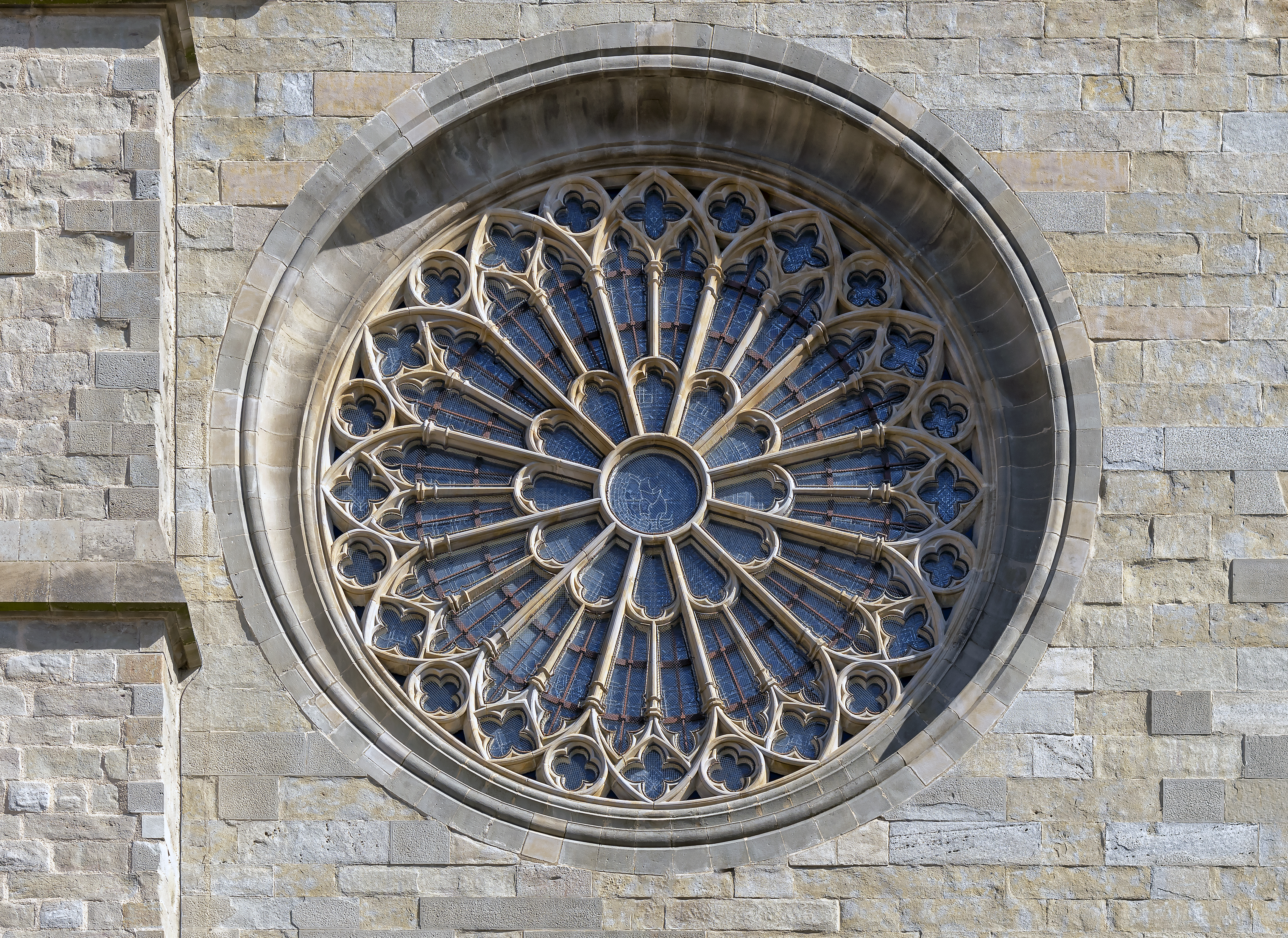 The rosette of Carcassonne Cathedral, Aude France